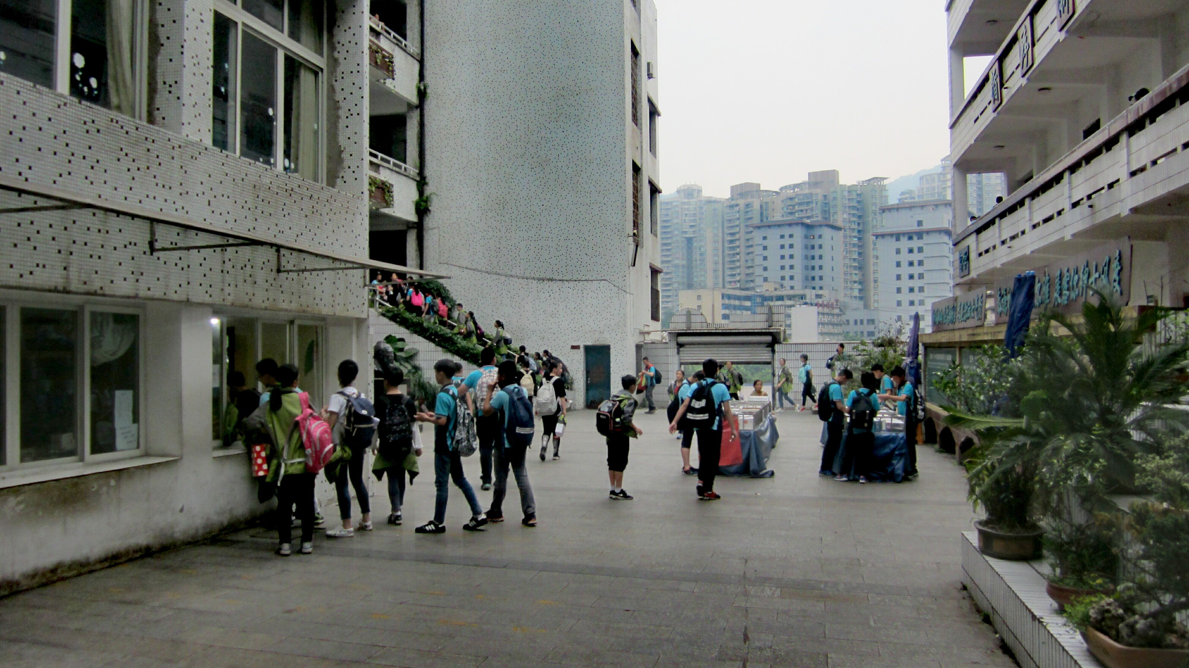 China Mainland’s middle School students 中文（台灣）: 大陸中學生